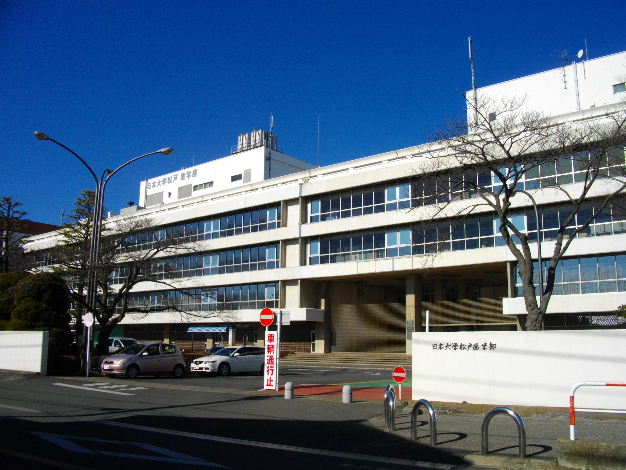 Nihon University School of Dentistry at Matsudo